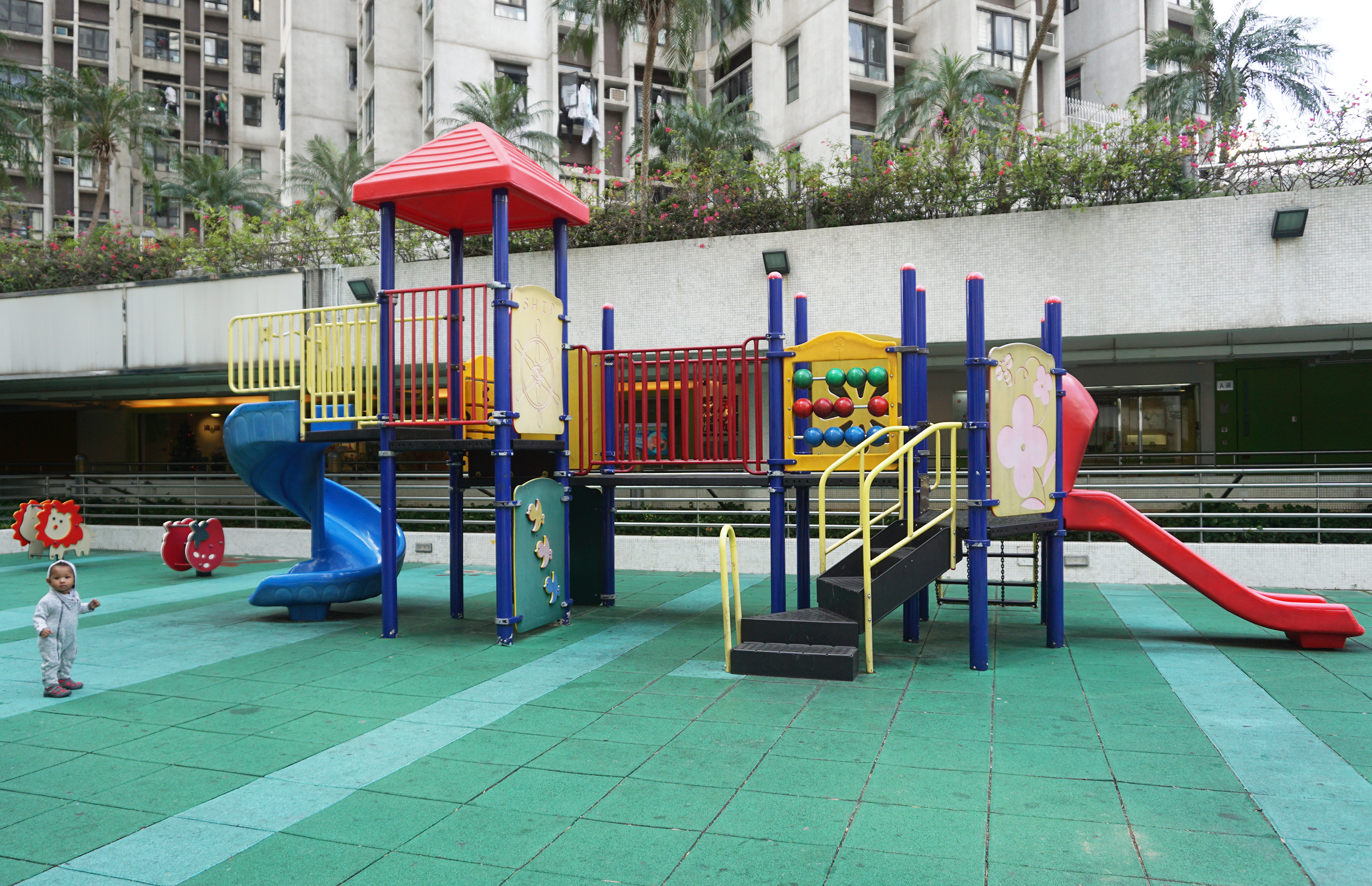 Prosperous Garden in Yau Ma Tei, Hong Kong.